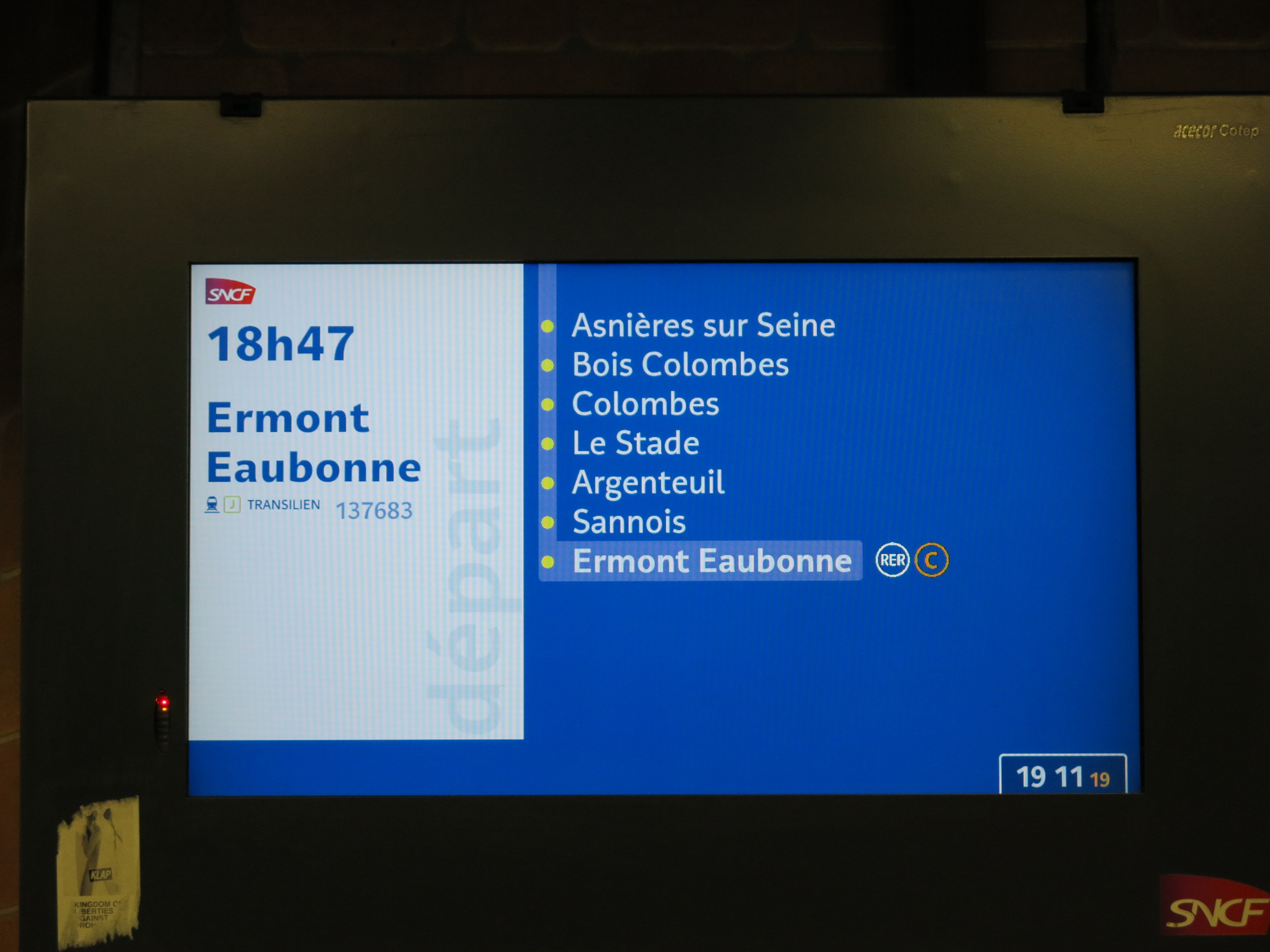 It is 19:11, but the train of 18:47 is still waiting (gare de Paris-Saint-Lazare, France).